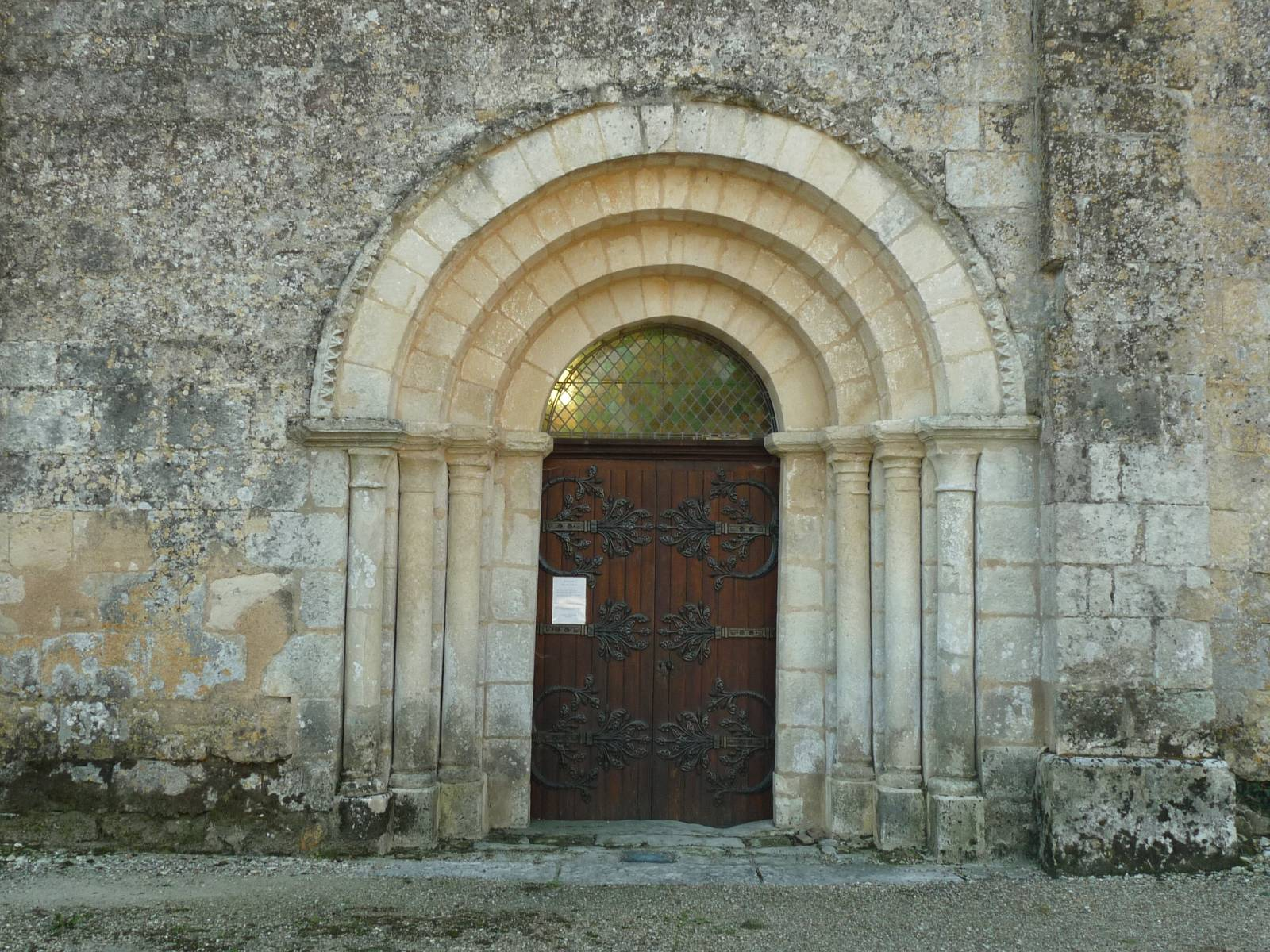 front gate of the church of Magnac-Lavalette, Charente, SW France